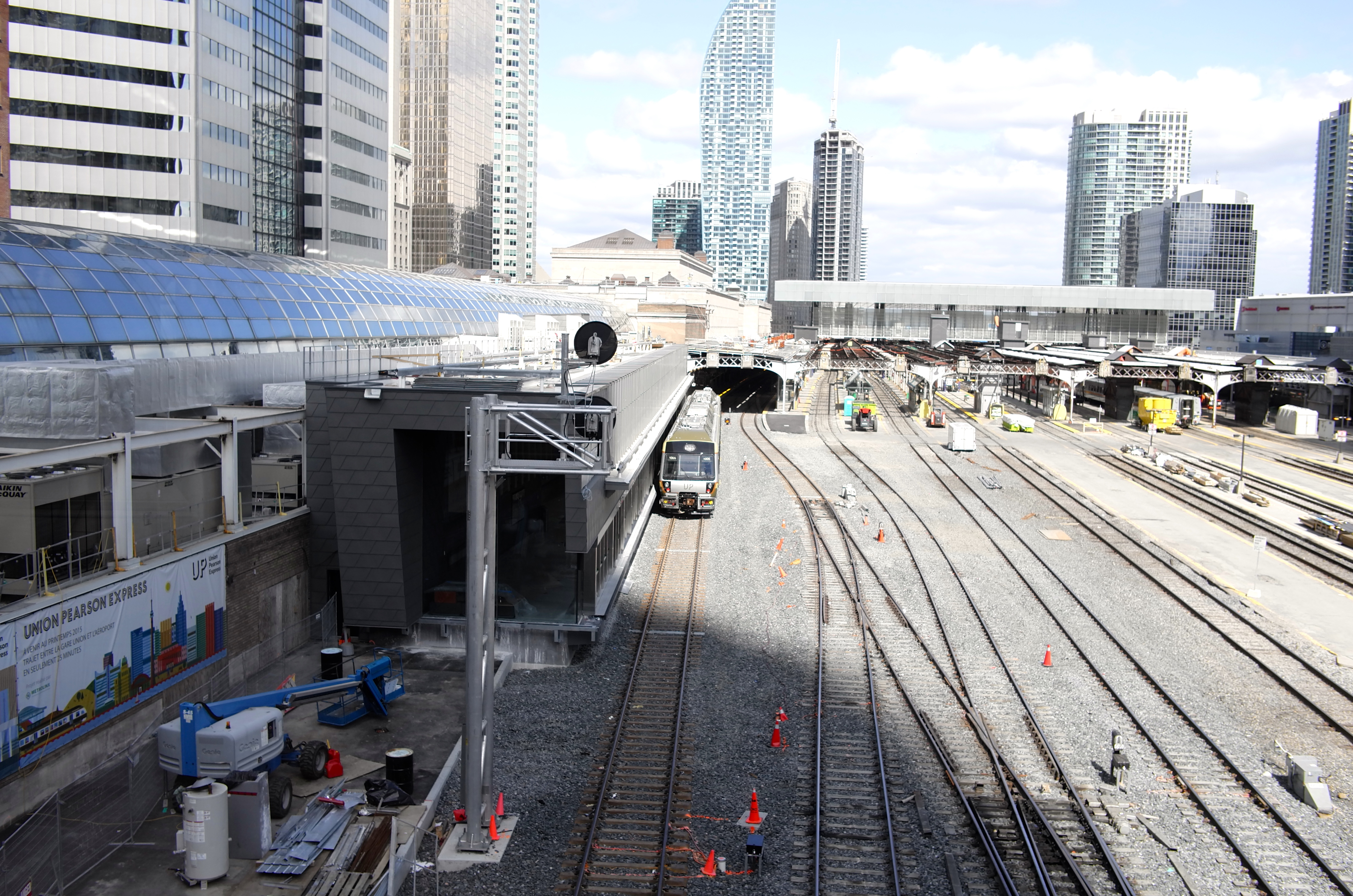 UPX's Union Station and train from SkyWalk